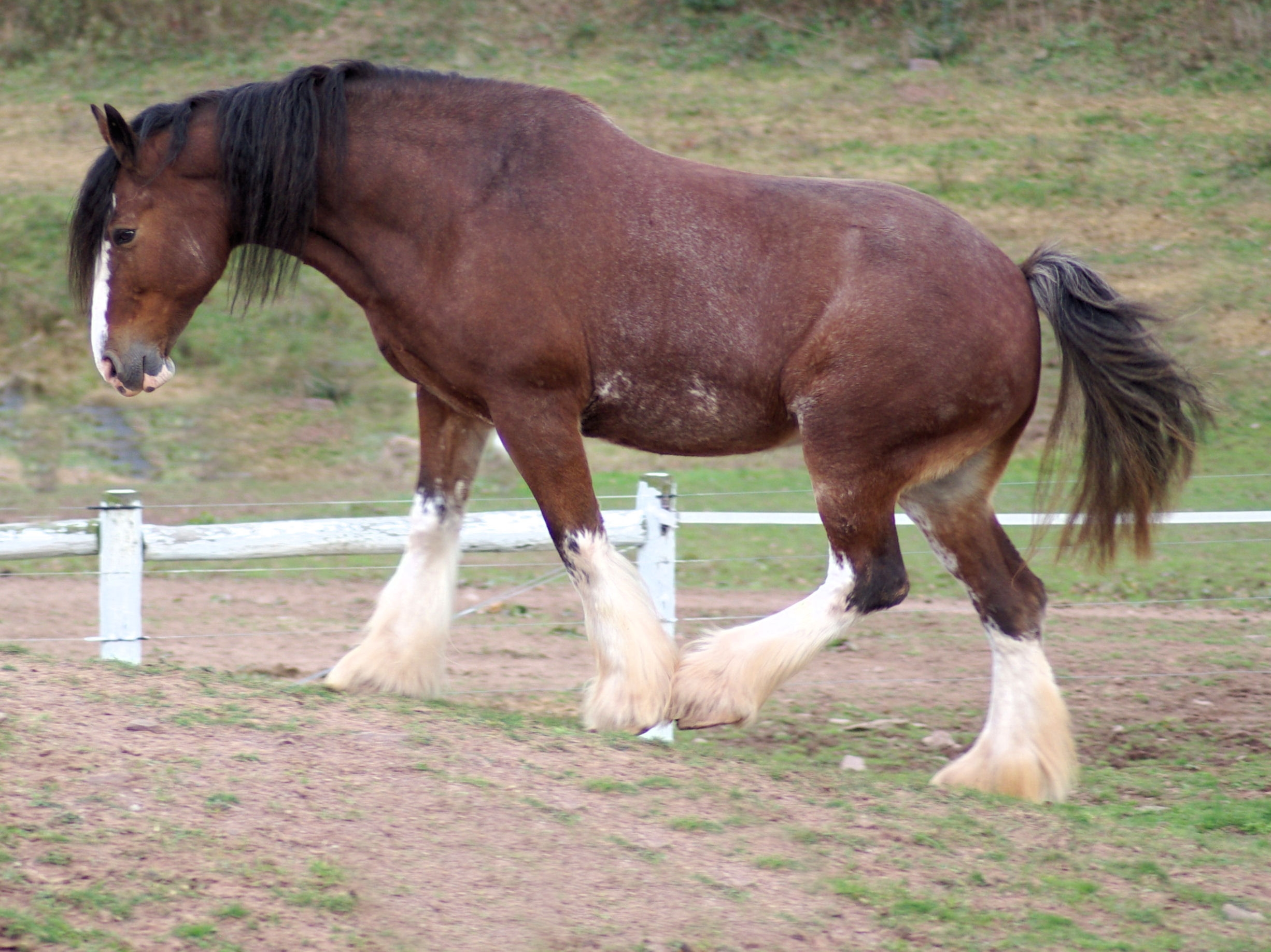 clydesdale draft horse